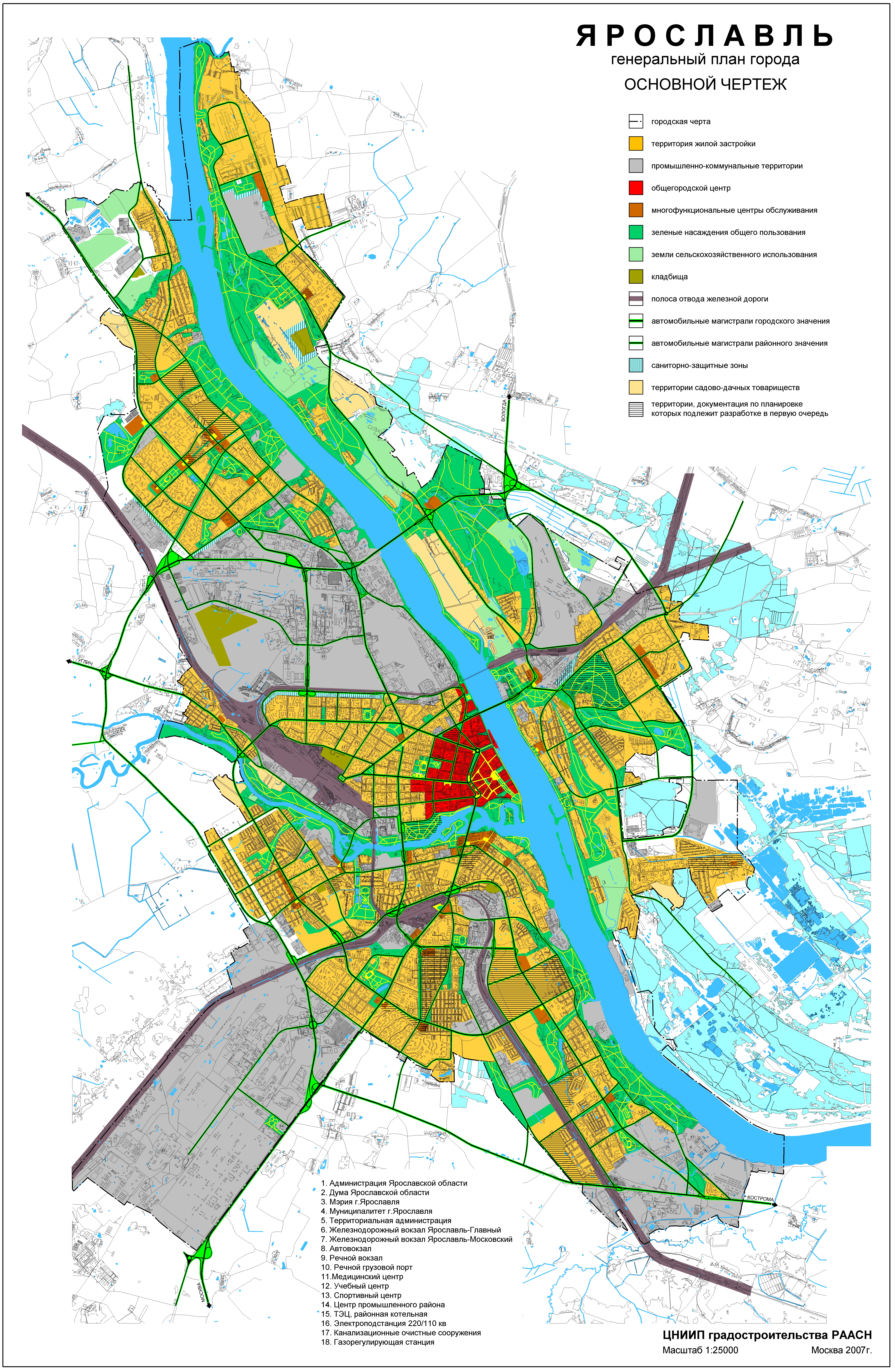 Change in General Plan of Yaroslavl 2008. Main drawing.